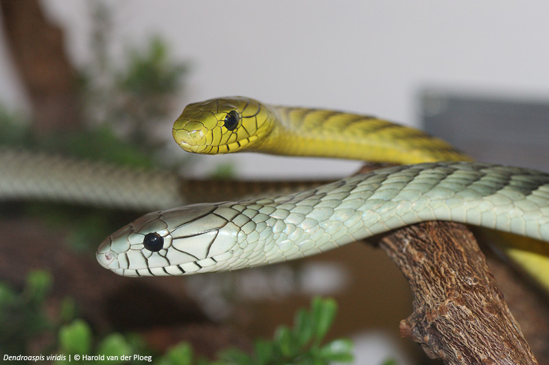 Western green mamba (Dendroaspis viridis)